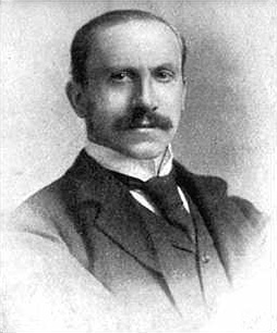 Alfred Milner, 1st Viscount Milner